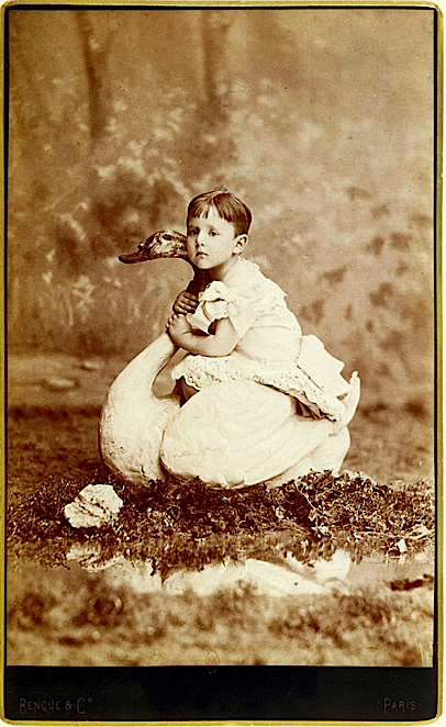 Photo of Raymond Roussel, aged 3, with a swan.